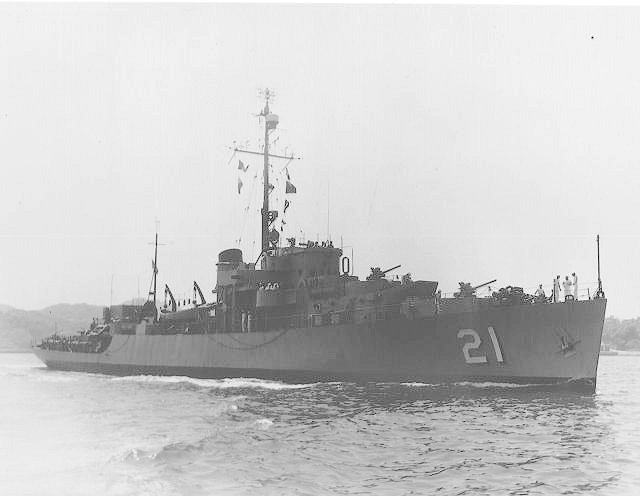 The United States Navy patrol frigate USS Bayonne (PF-21)